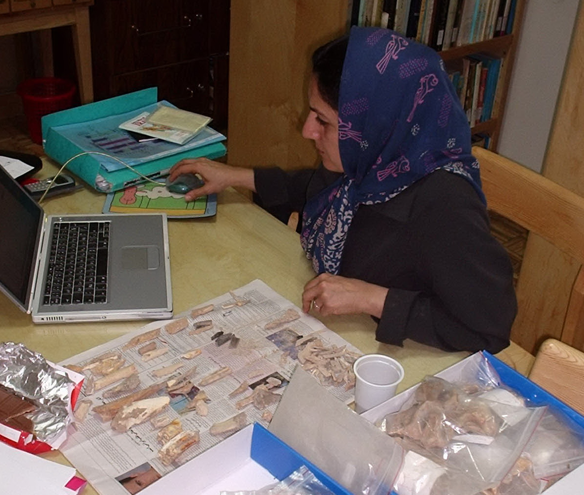 Marjan Mashkour received her Ph.D. in zooarchaeology in Paris (2001) and currently is a member of CNRS. She is an Iranian who is specialized in the field of zooarchaeology and has been engaged in many field and laboratory projects in Iran and Near East. Her research interest is late Paleolithic fauna of Zagros and domestication of wild goat in Iran.